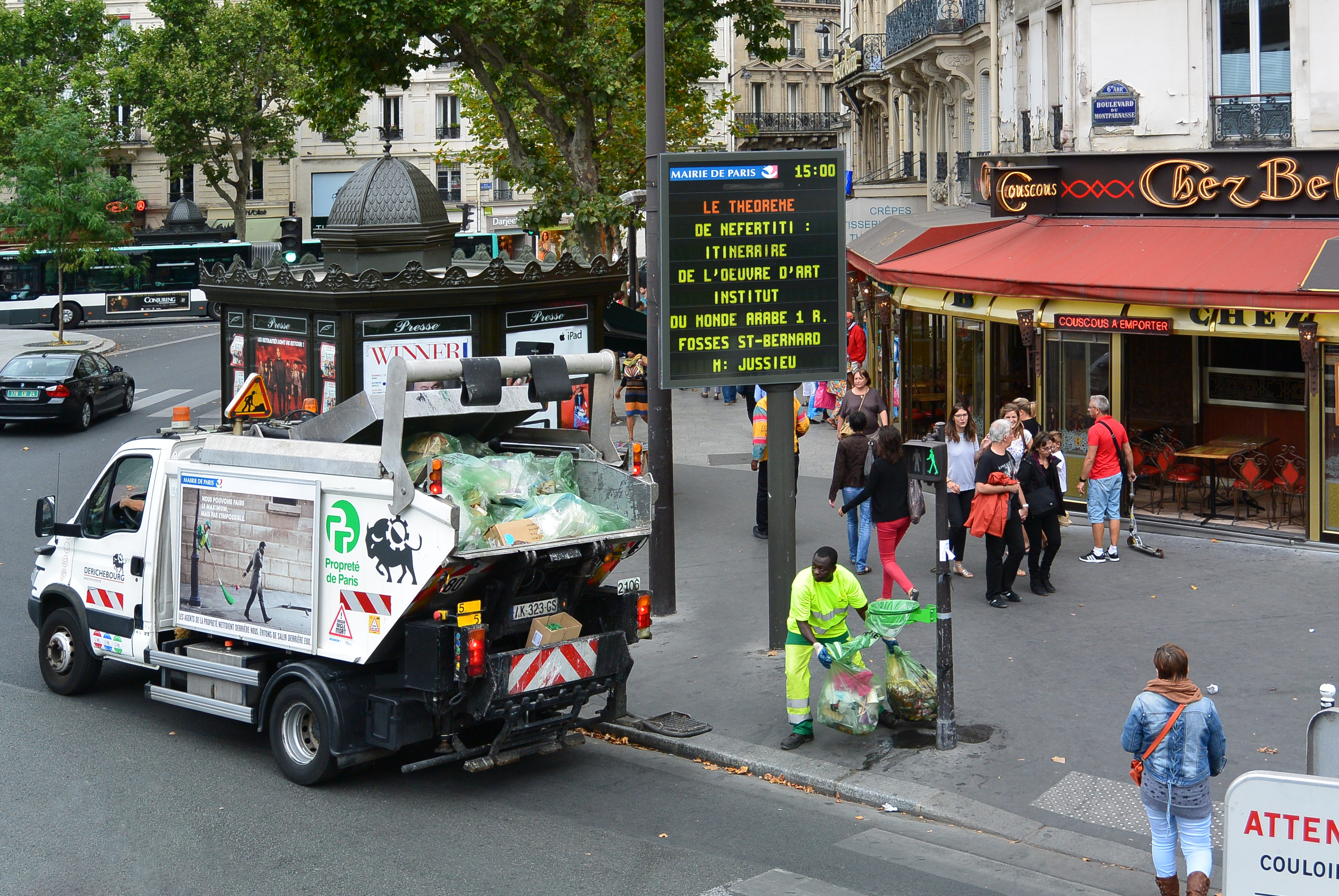 Waste collection truck, boulevard du Montparnasse, Paris.